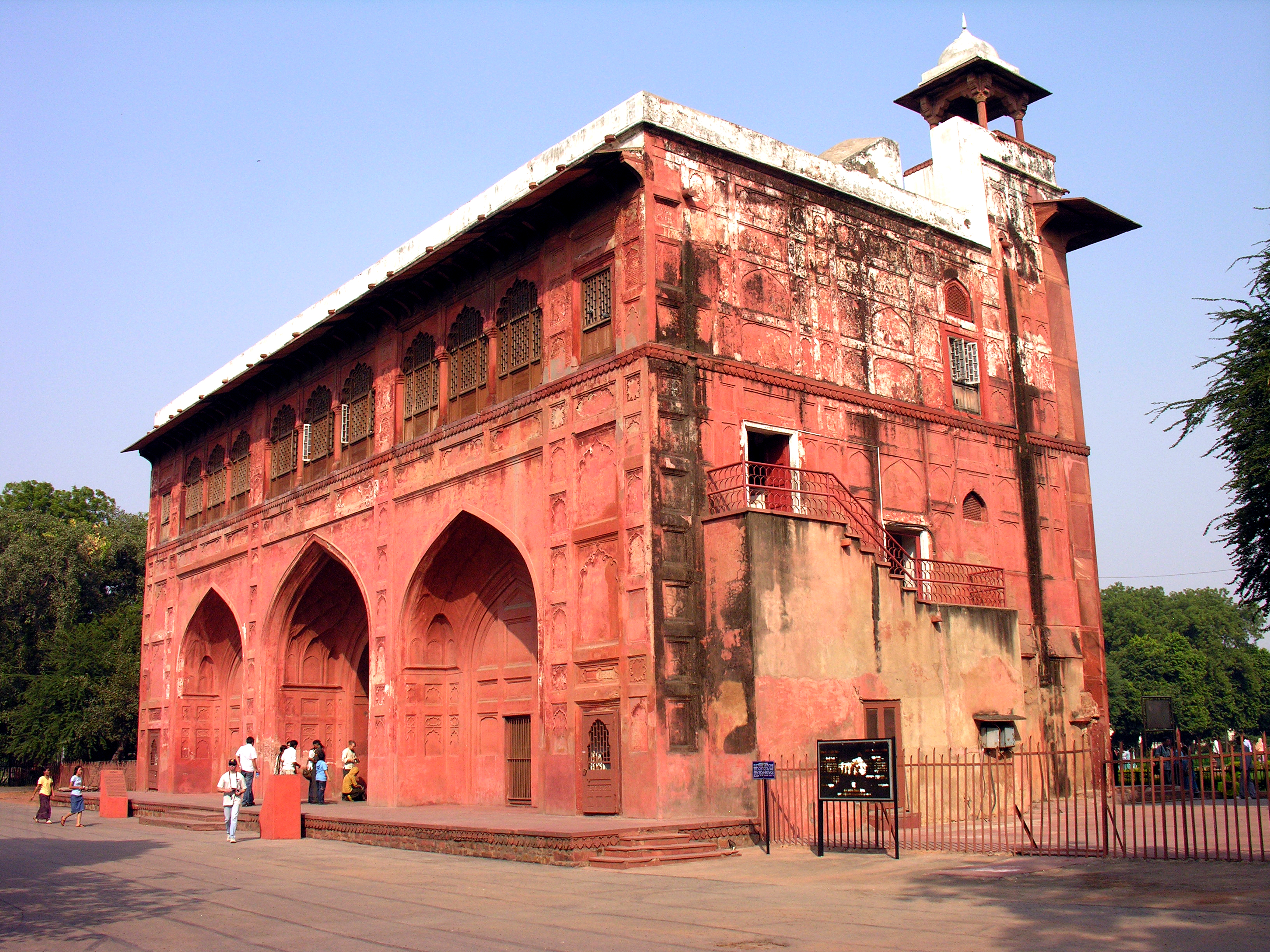 Just beyond the Meena Bazaar is the heart of the fort called Naubat Khana or the Drum House. The musicians used to play for the emperor from the here and the arrival of princes and royalty was heralded from here. It is now a museum on first floor and housing many interesting artifacts.